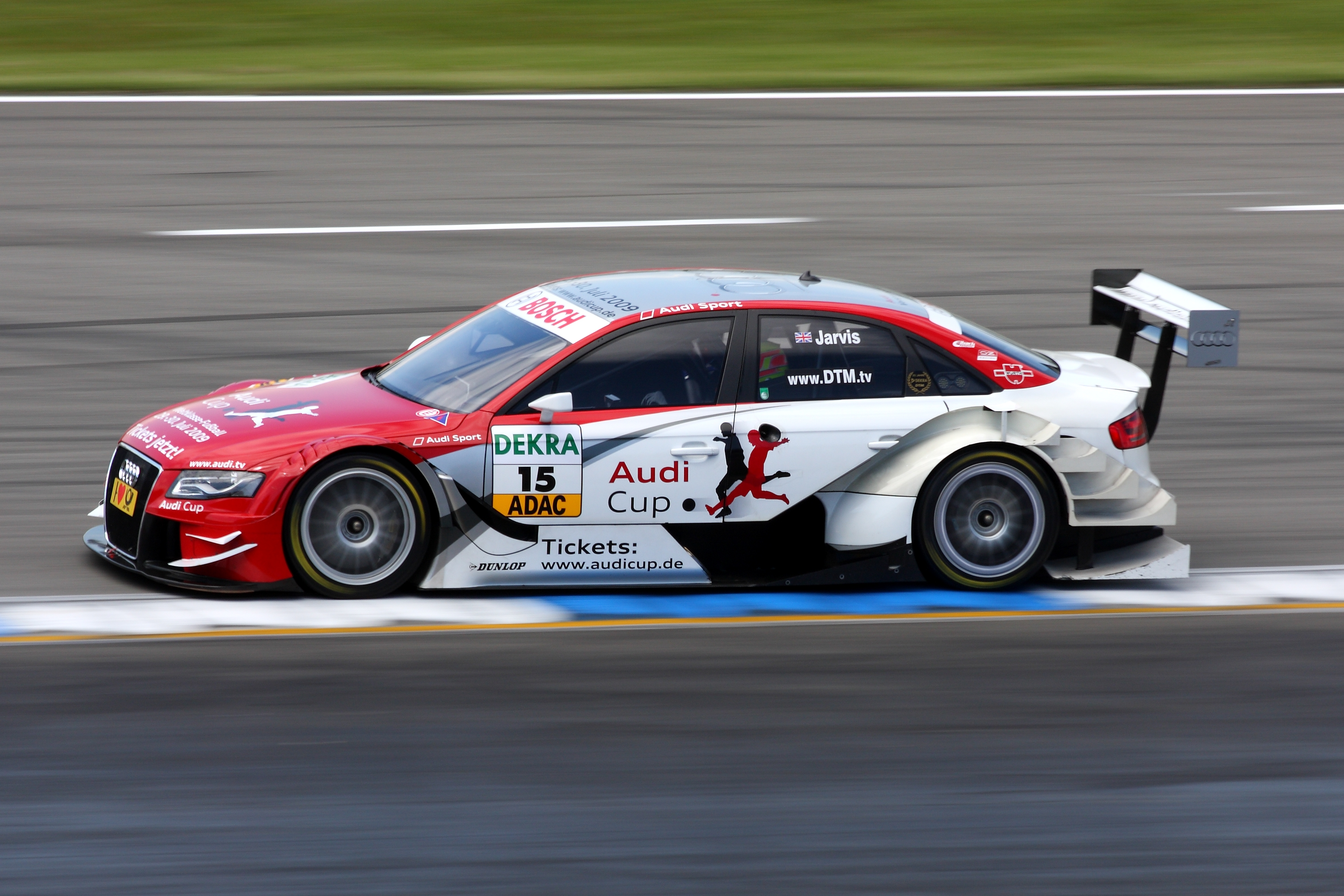 DTM Audi A4, Oliver Jarvis (driver)